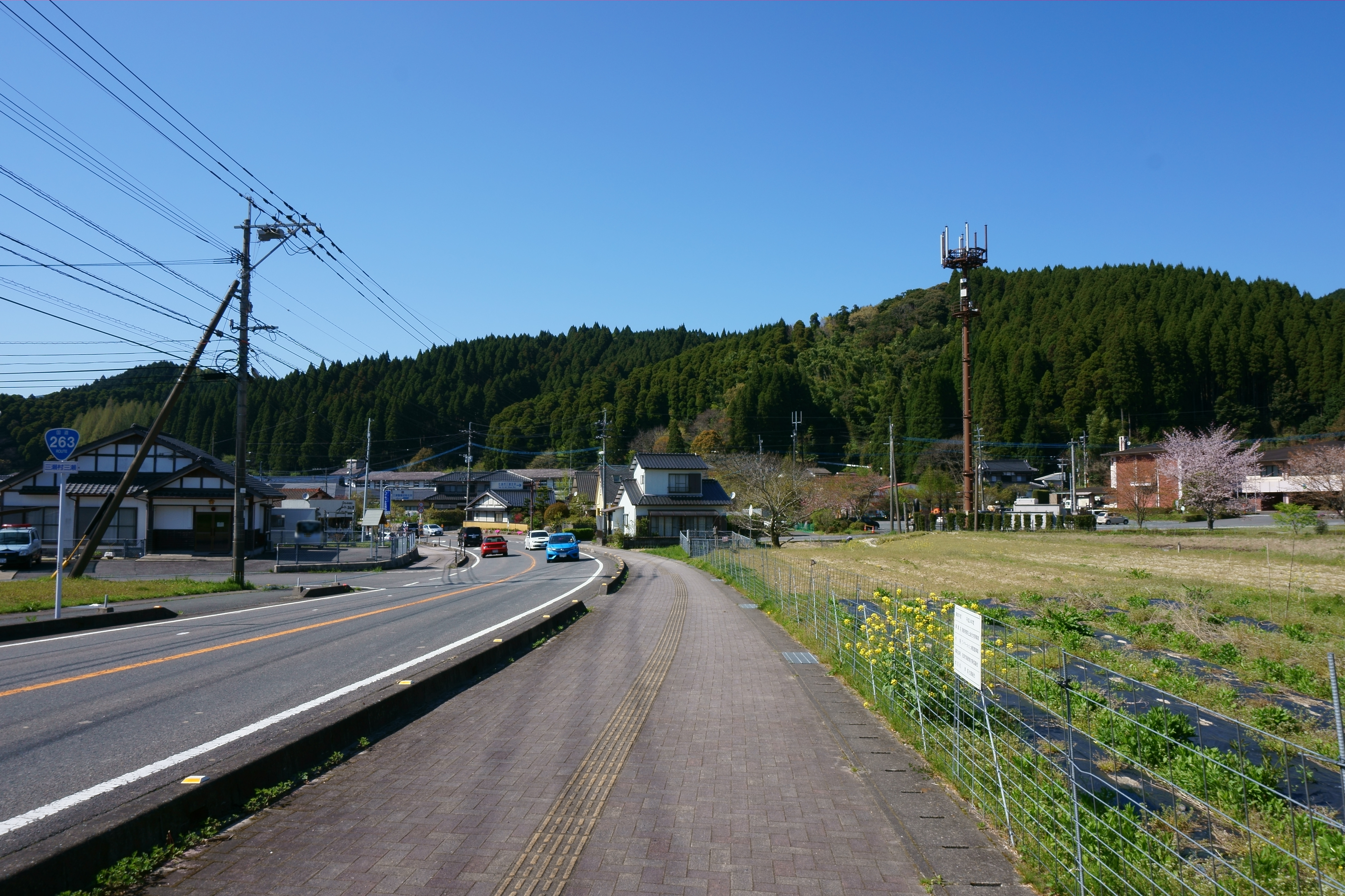 Center of Mitsuse village, in Saga city, Saga prefecture.